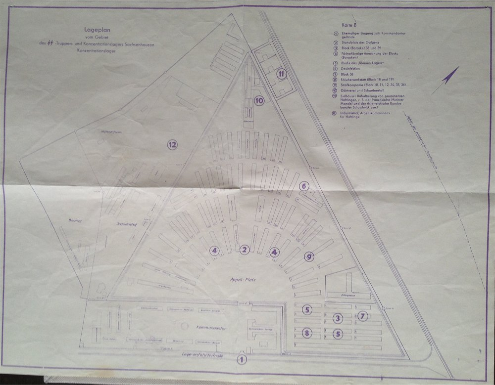 Map of the GERMAN concentration camp SACHSENHAUSEN. Original copy. Private collection.